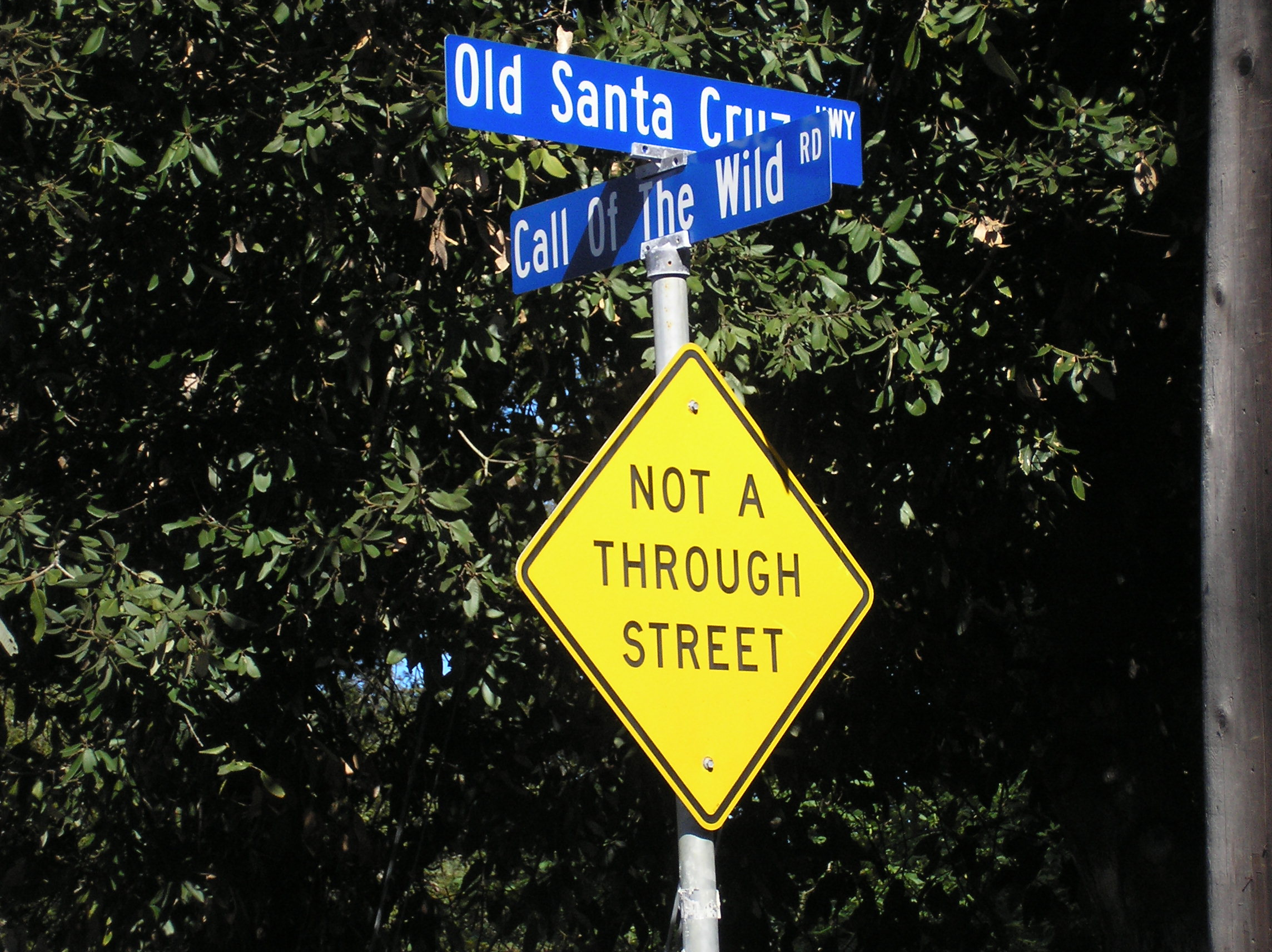 Call Of The Wild Road where it meets Old Santa Cruz Highway.